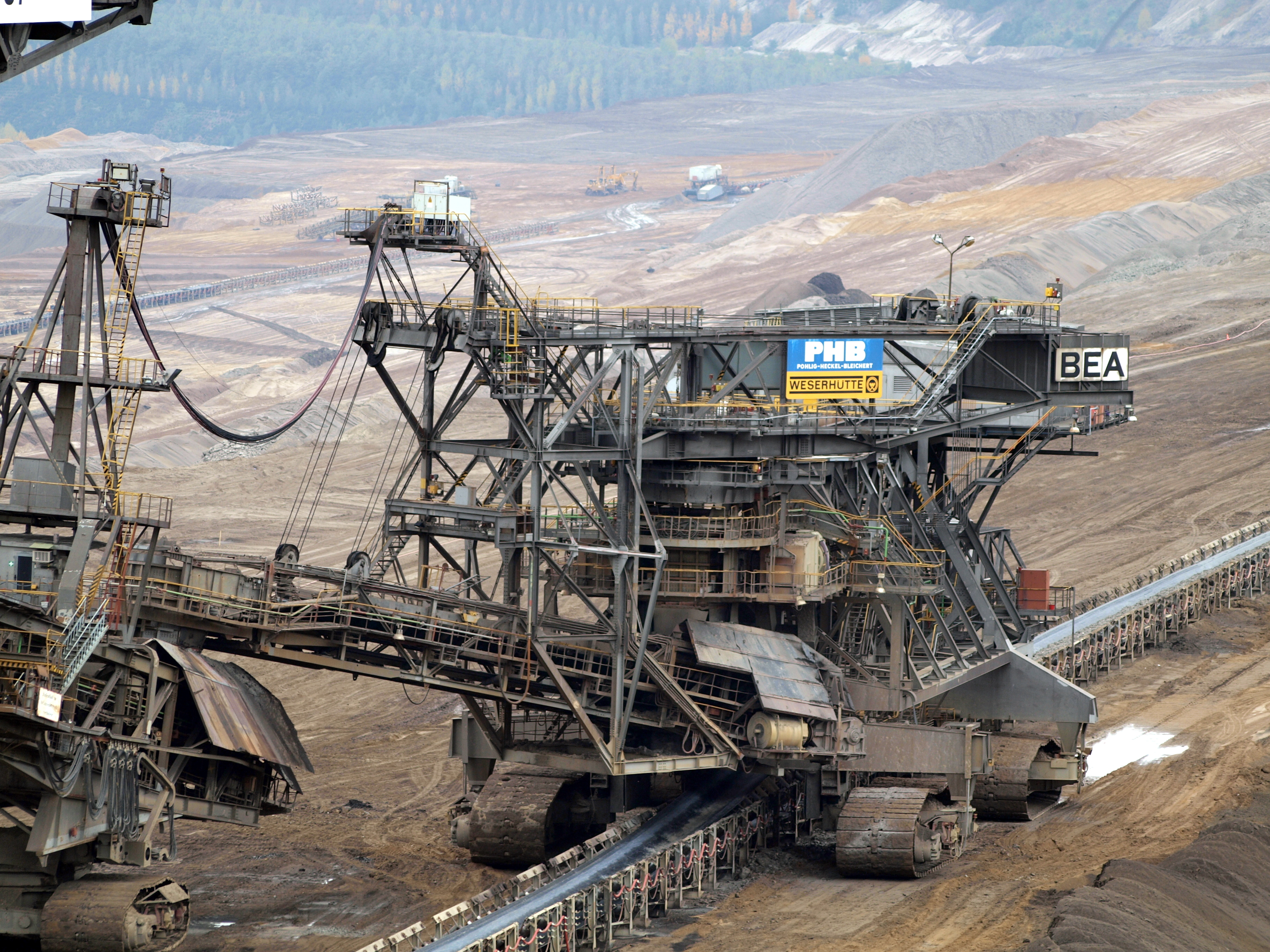 Traveling tripper (de: Bandschleifenwagen), part of stacker (de: Absetzer) Rheinbraun 757 O&K, AEG, PHB Weserhutte, Garzweiler, Germany.